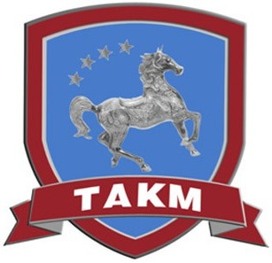 Coat of Arms of TAKM